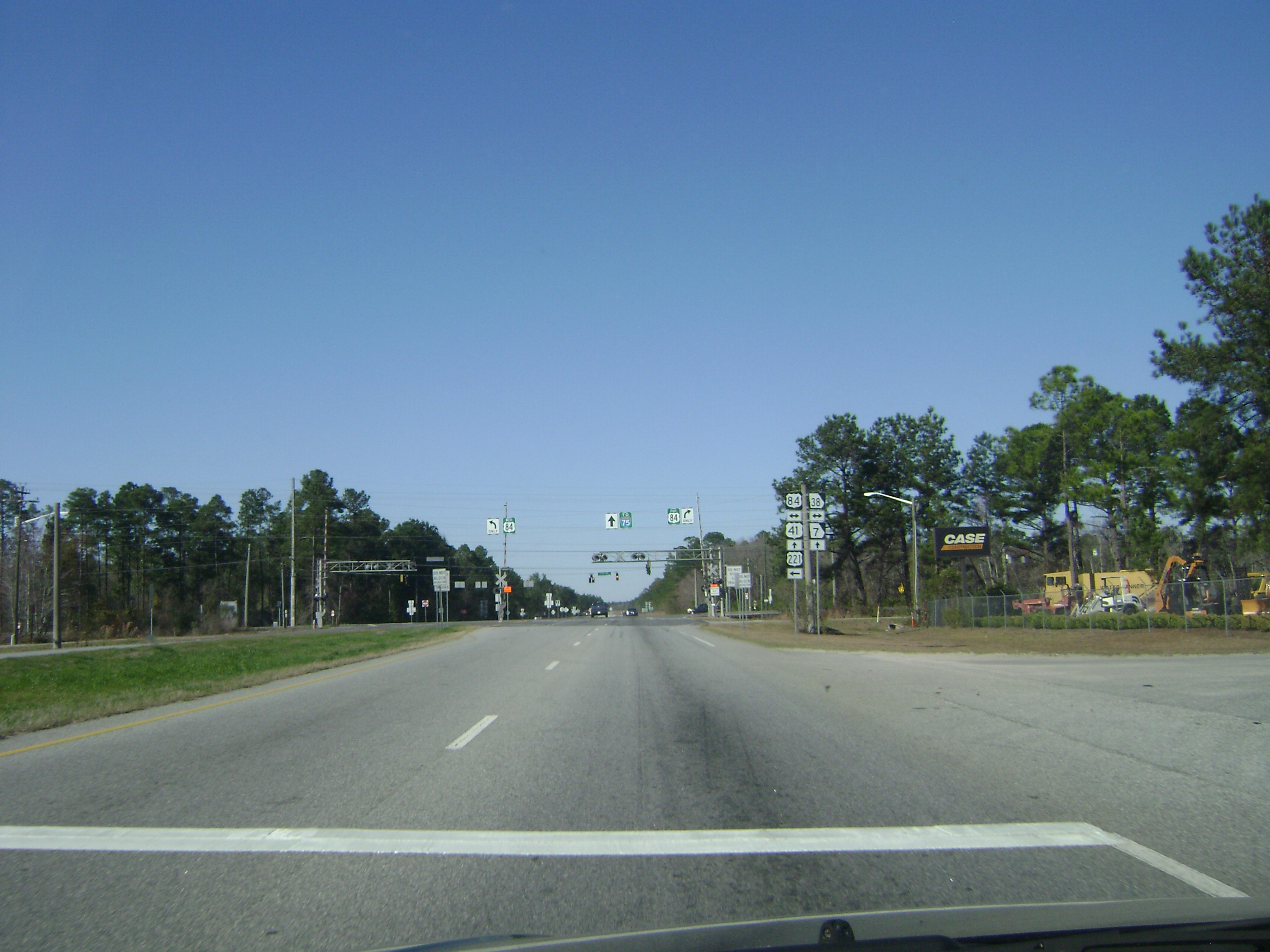 Intersection of Inner Perimeter Rd (US 41 / GA 7) and E. Hill Ave. (US 84 / GA 38) (US 221 runs NB and WB here), railroad crossing before the intersection, Valdosta, Lowndes County, Georgia